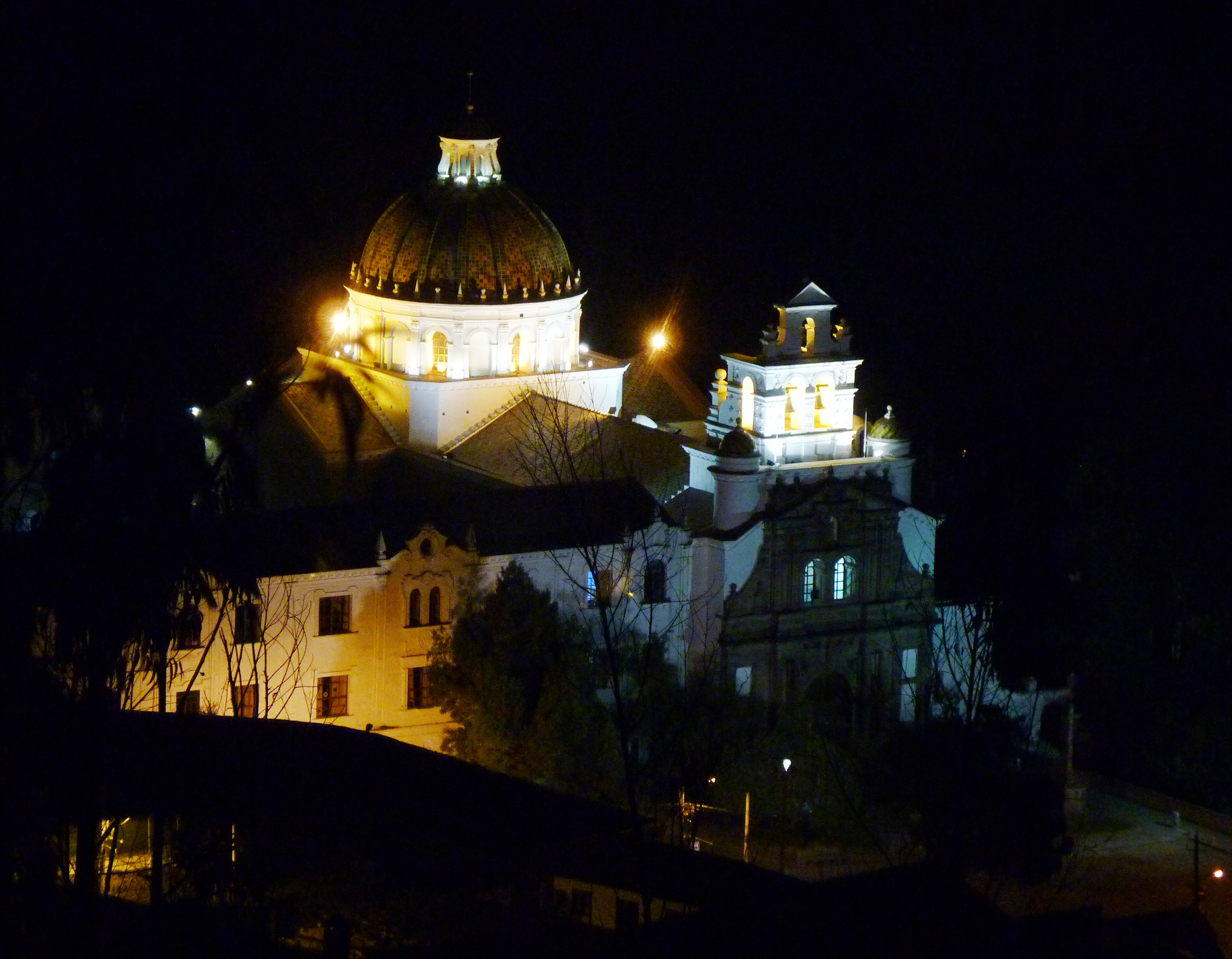 The baroque convent and church of Guápulo in Quito, Ecuador, built in 1649.